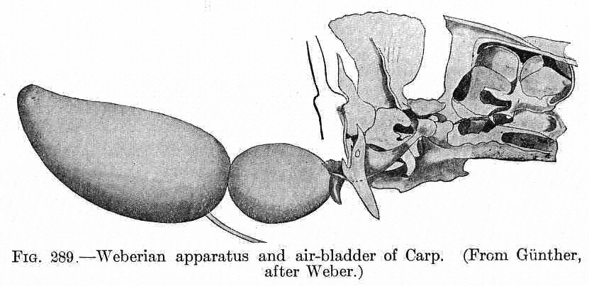 Weberian apparatus and air-bladder of Carp Subject: Carp--Anatomy Tag: Fish